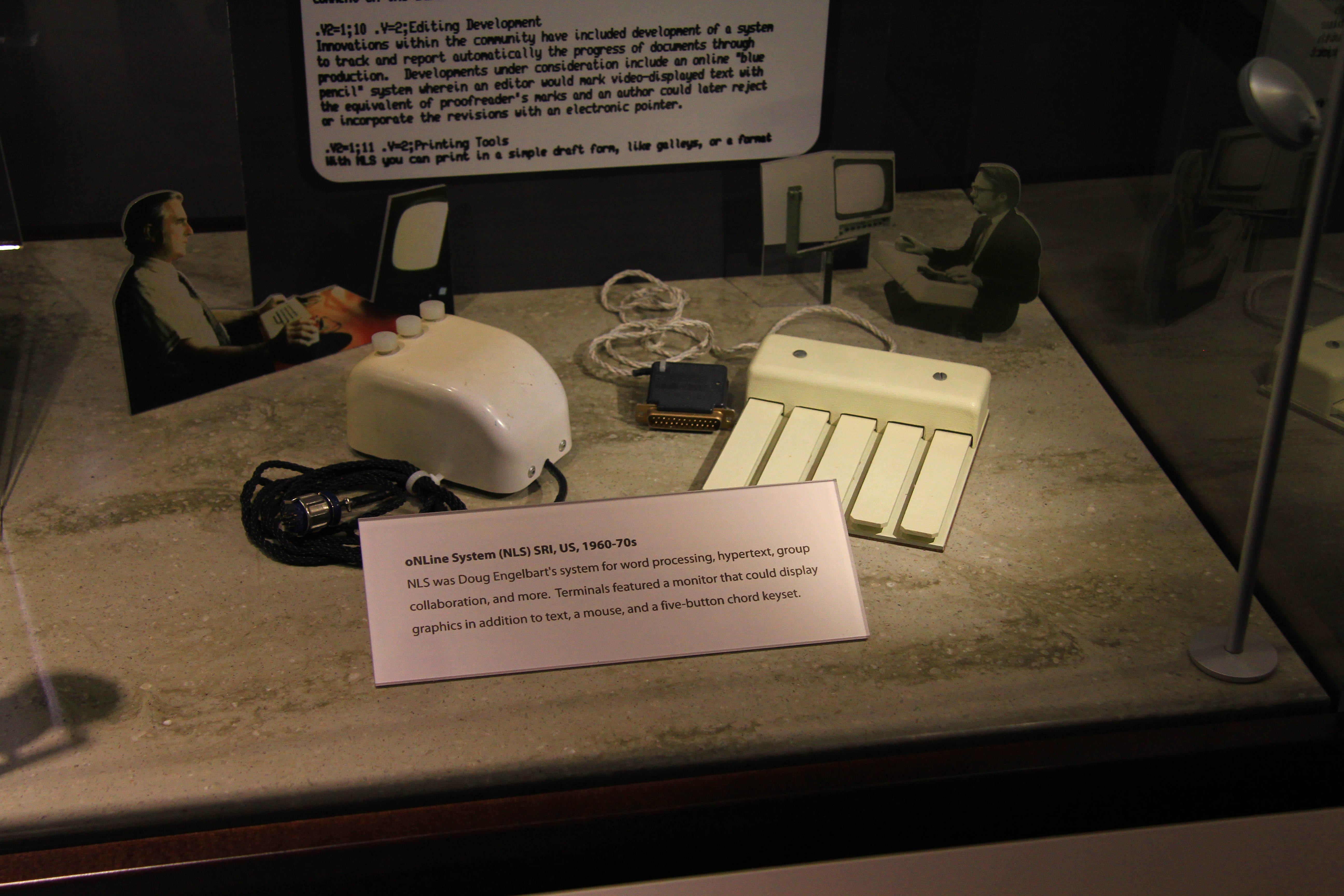 Three-button mouse and chord keyboard apparently from later versions of the from the NLS (oNLine System) previously made famous in Doug Engelbart's "Mother of all demos".